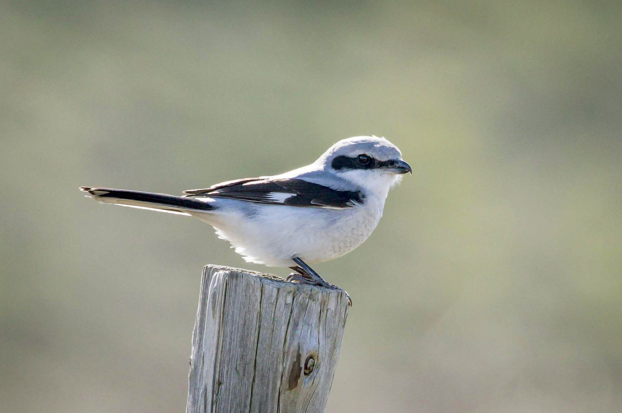 Great Grey Shrike Lanius excubitor excubitor, Chilham, Kent